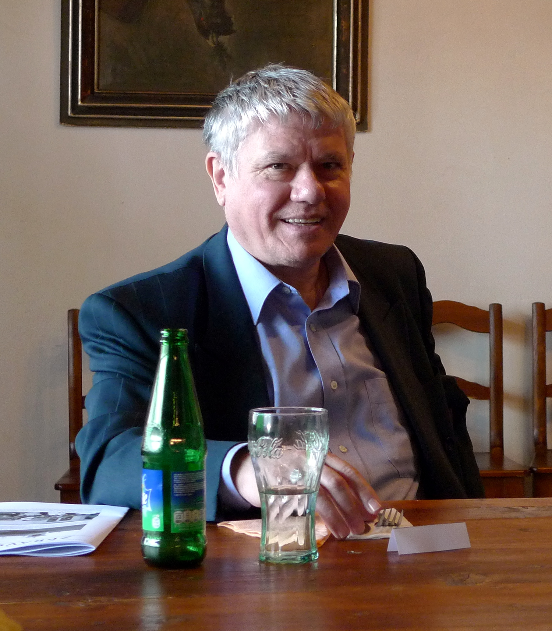 Czech theologian Václav Malý in Přerov nad Labem